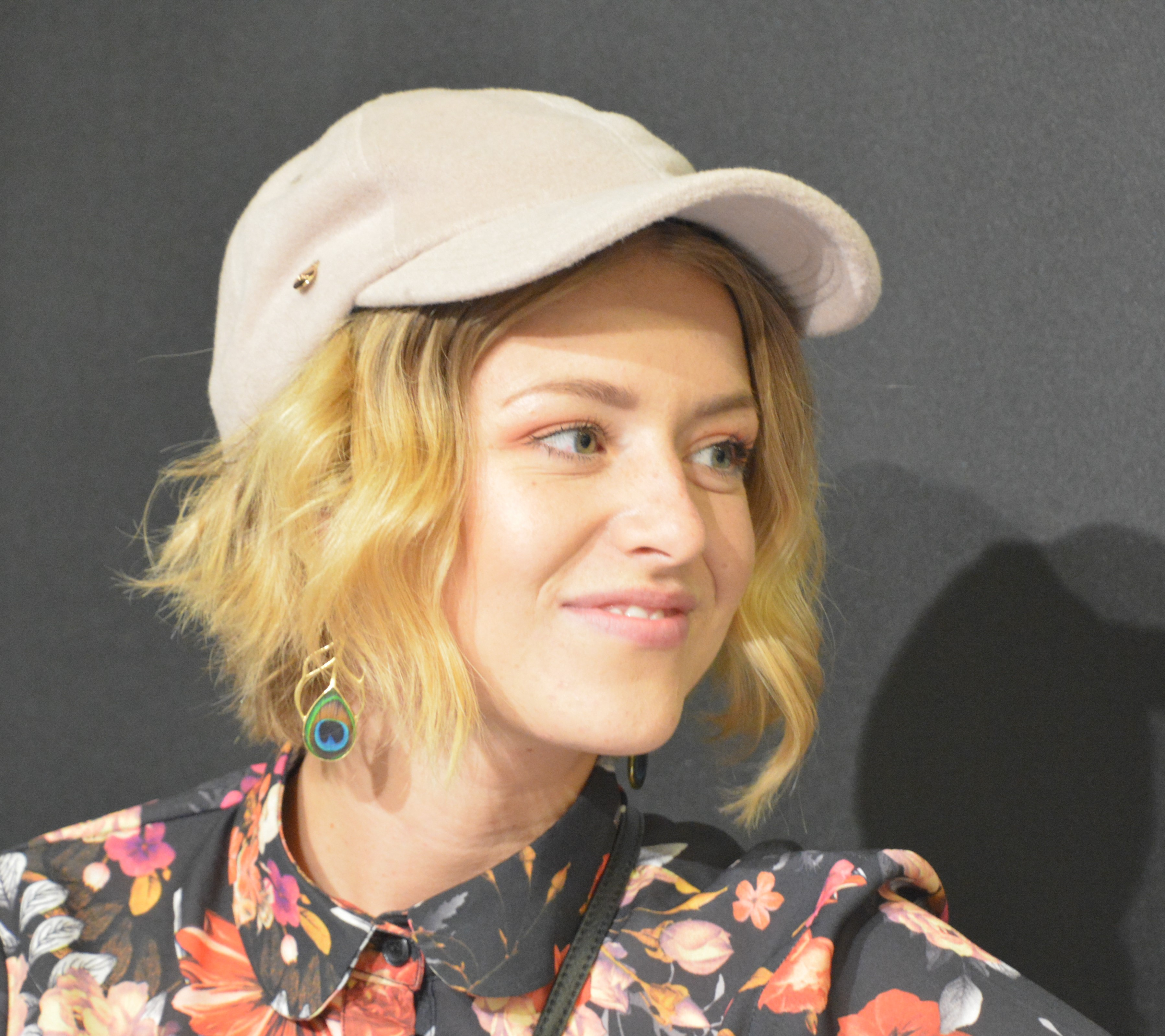 Clara Henry på Bokmässan i Göteborg 2016